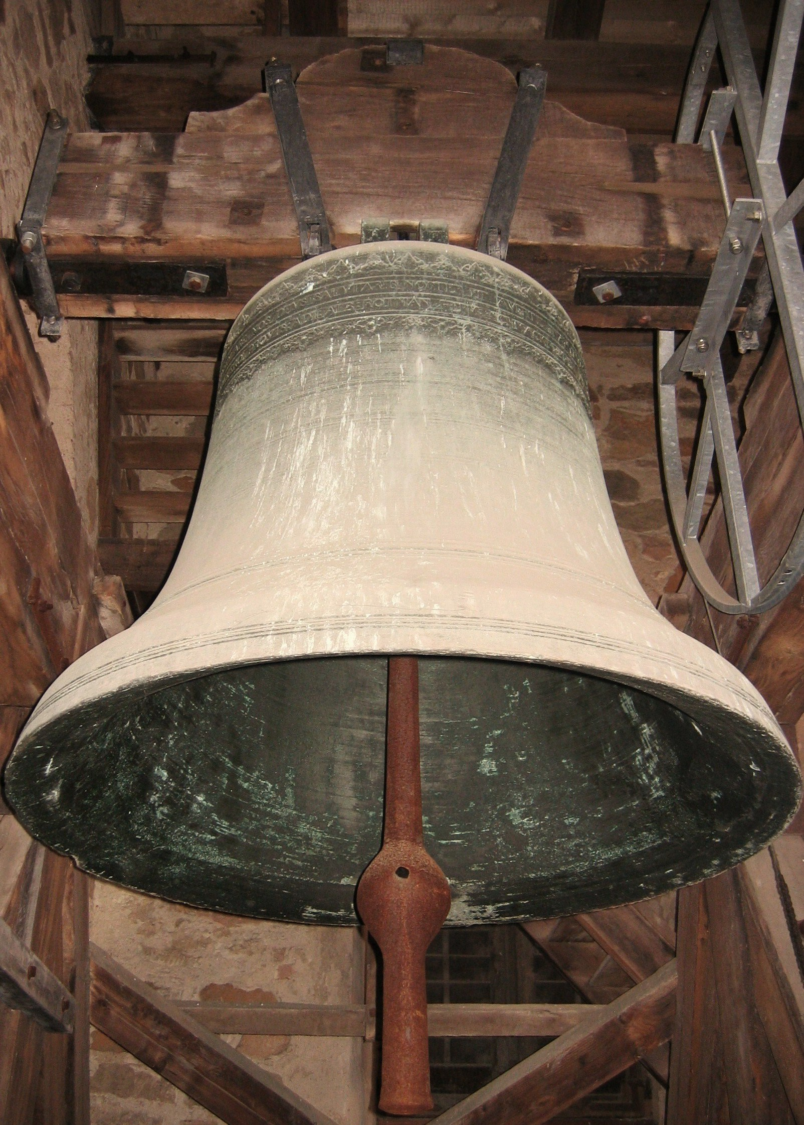 Bell and bell tower of St. Johannis in town of Herford, District of Herford, North Rhine-Westphalia, Germany.